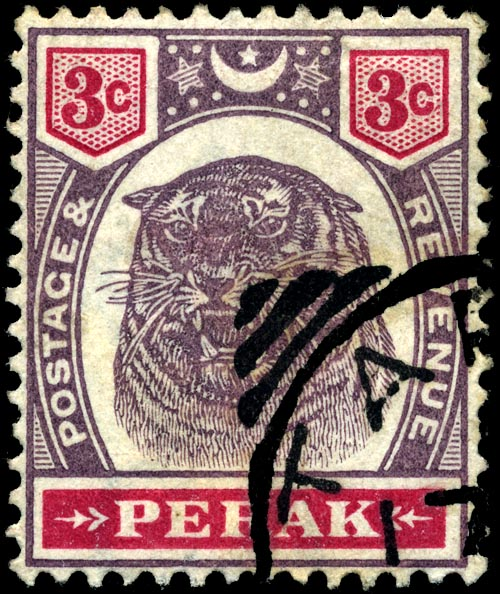 Perak 3c stamp of 1895